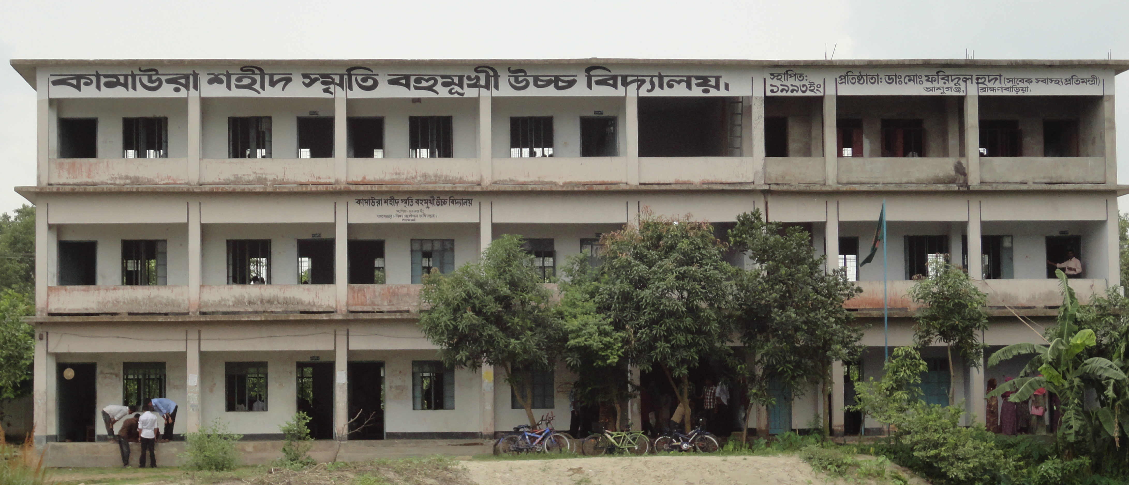 Main Building